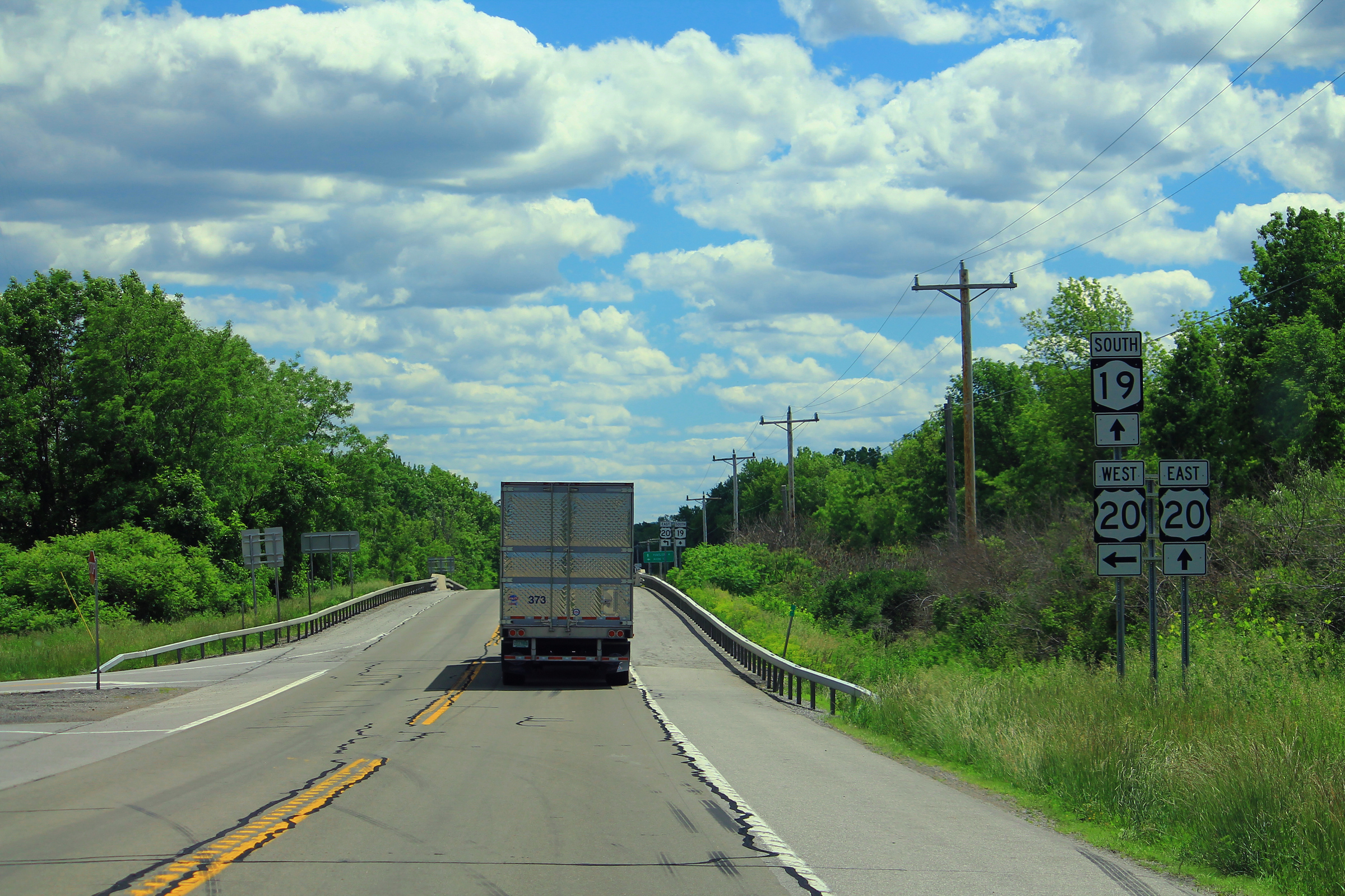 NY19 South - US20 Signs